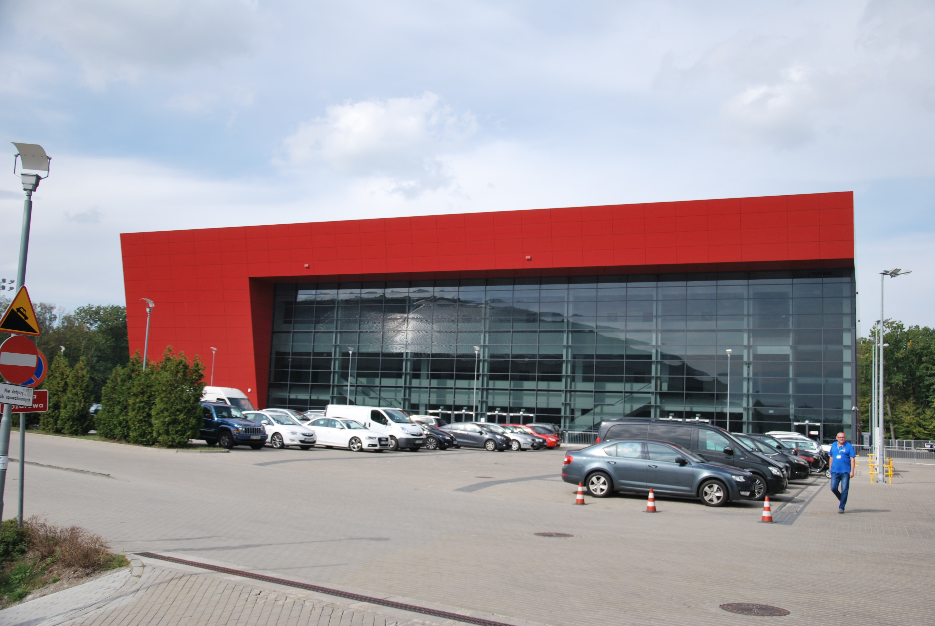 Łódź Sport Arena, 2 Unii Lubelskiej Avenue